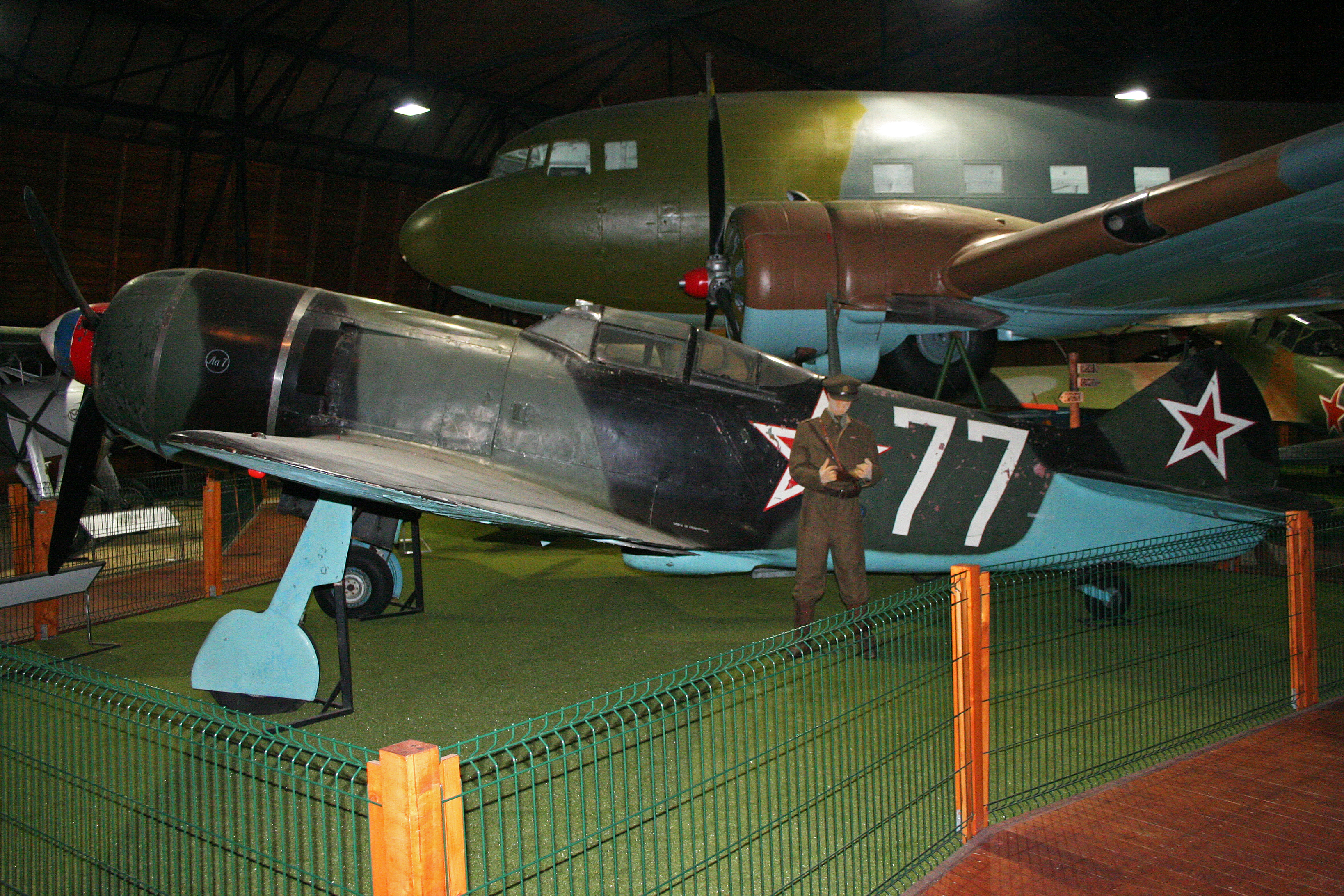 On display in the WW2 hangar. Kbely Museum, Czech Republic. 07-10-2012